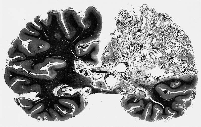 CNS: ARTERIOVENOUS MALFORMATION As seen in a whole mount histologic section, this large arteriovenous malformation occupies much of the parietal lobe. There is little mass effect from this large lesion which has gradually replaced the regional brain.